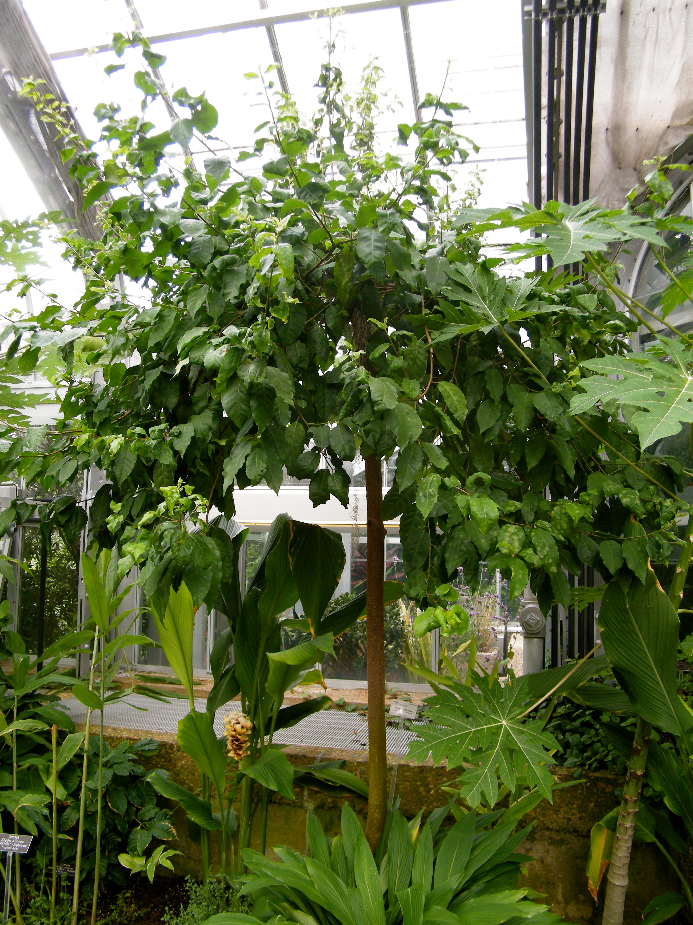 Prunus africana at the US Botanic Gardens.